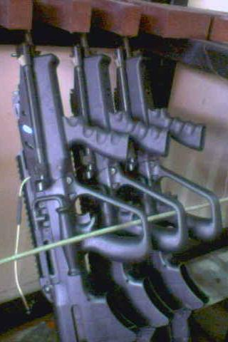 SAR-21 LMG